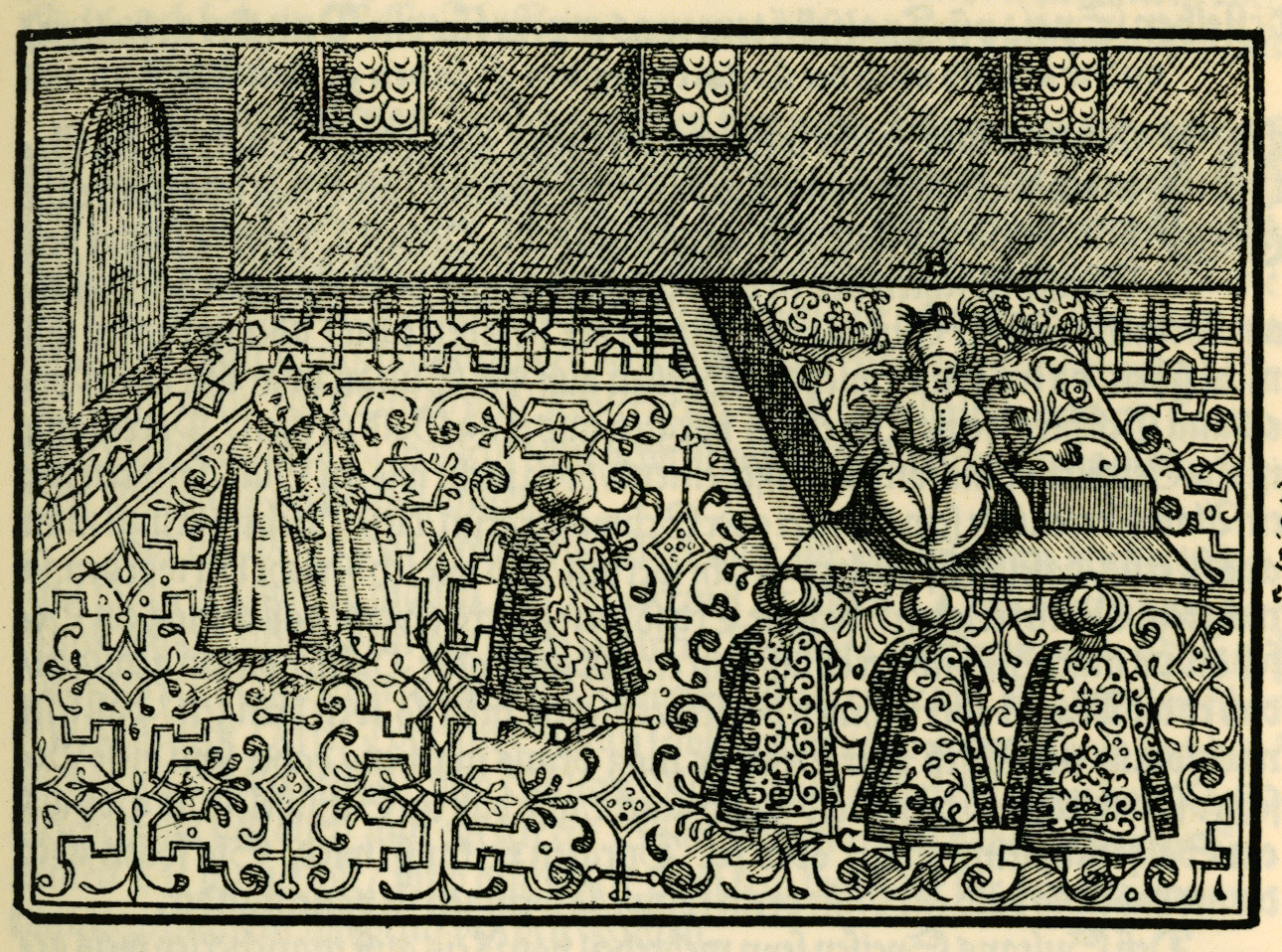 Salomon Schweigger. Ein newe Reiss Beschreibung auss Teutschland nach Constantinopel und Jerusalem, Nuremberg / Graz, Johann Lantzenberger / Akademische Druck 1608